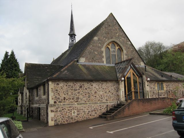 Photo: St Joseph's Church, Malvern, England